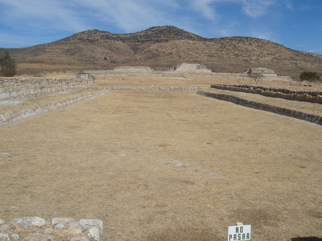 Template:Plazuelas ballgame court viewed from south